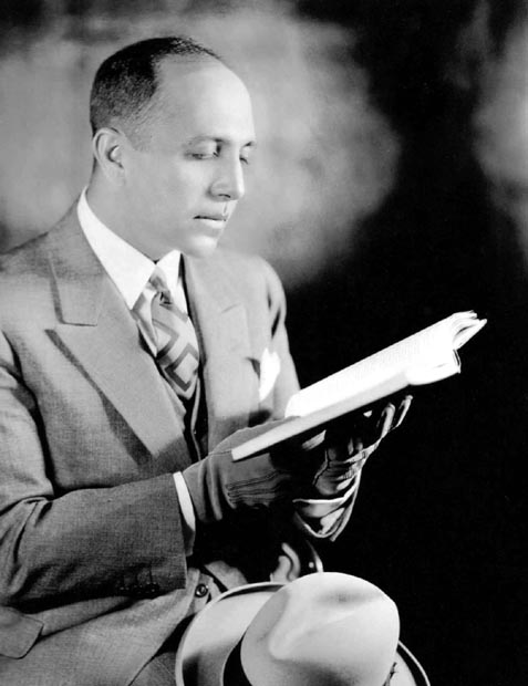 Dimitri Buchowetzki (1885-1932) - was a Russian and American film director, screenwriter, and actor